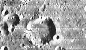 Spallanzani lunar crater - Lunar Orbiter IV image LOIV 095 H2.